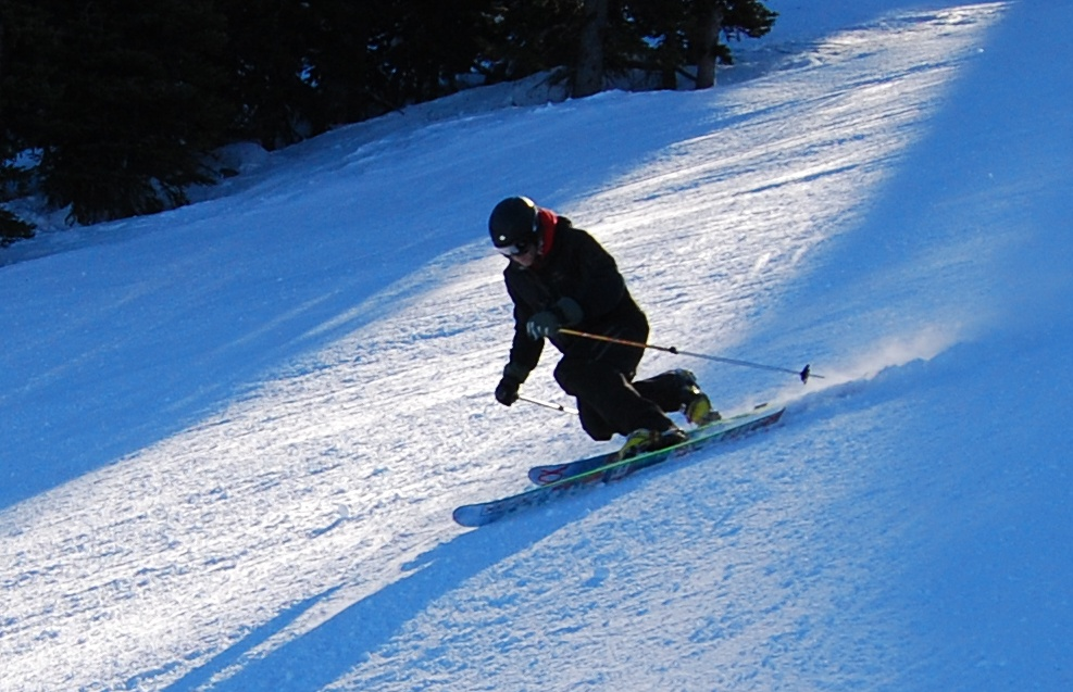 Telemark skiing photo (in Apex, Canada). Skier: Øyvind Reimers